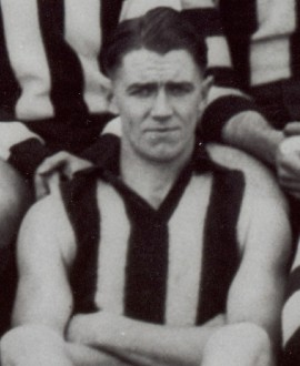 Photograph of Harold Powell in 1939